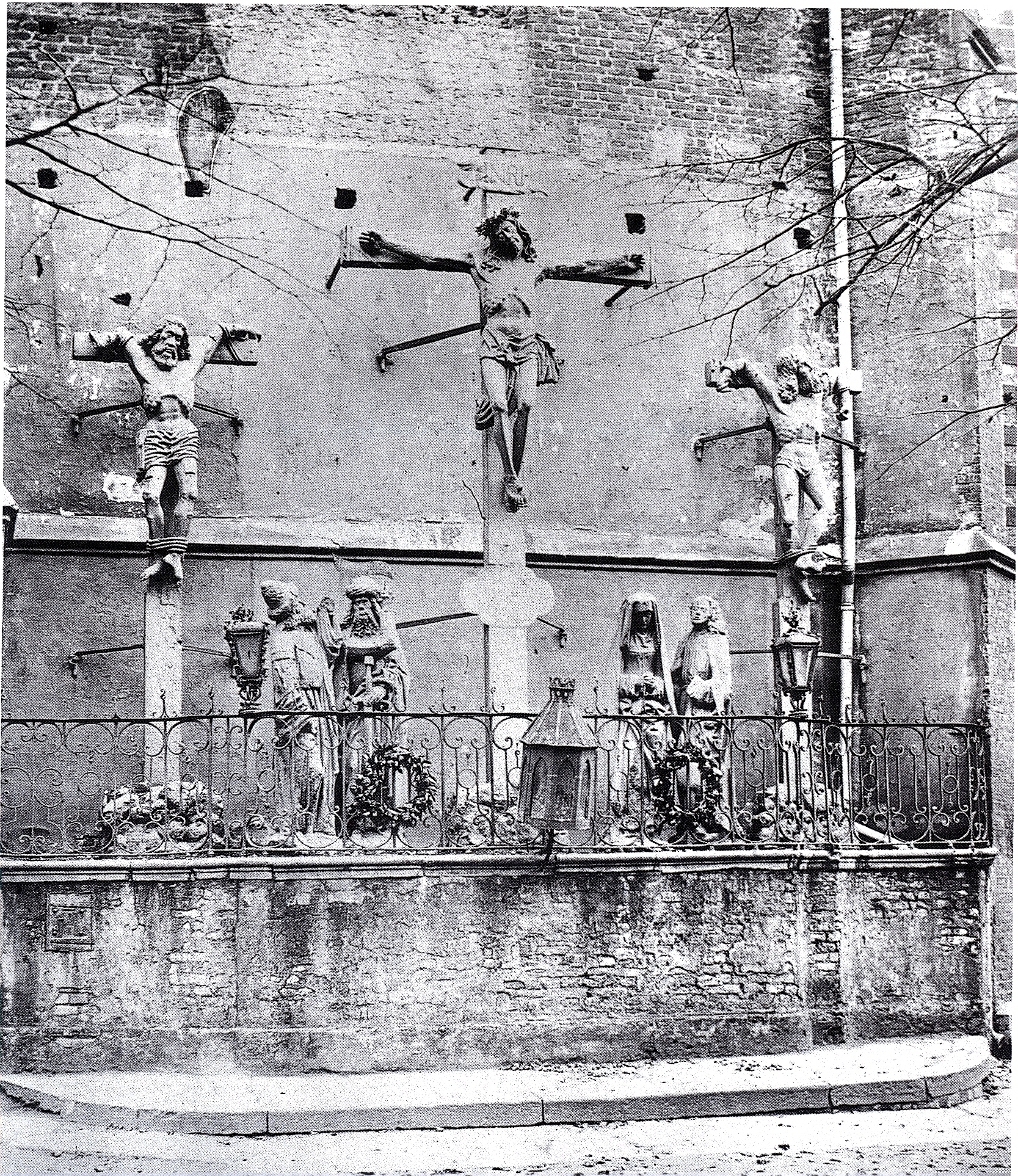 t